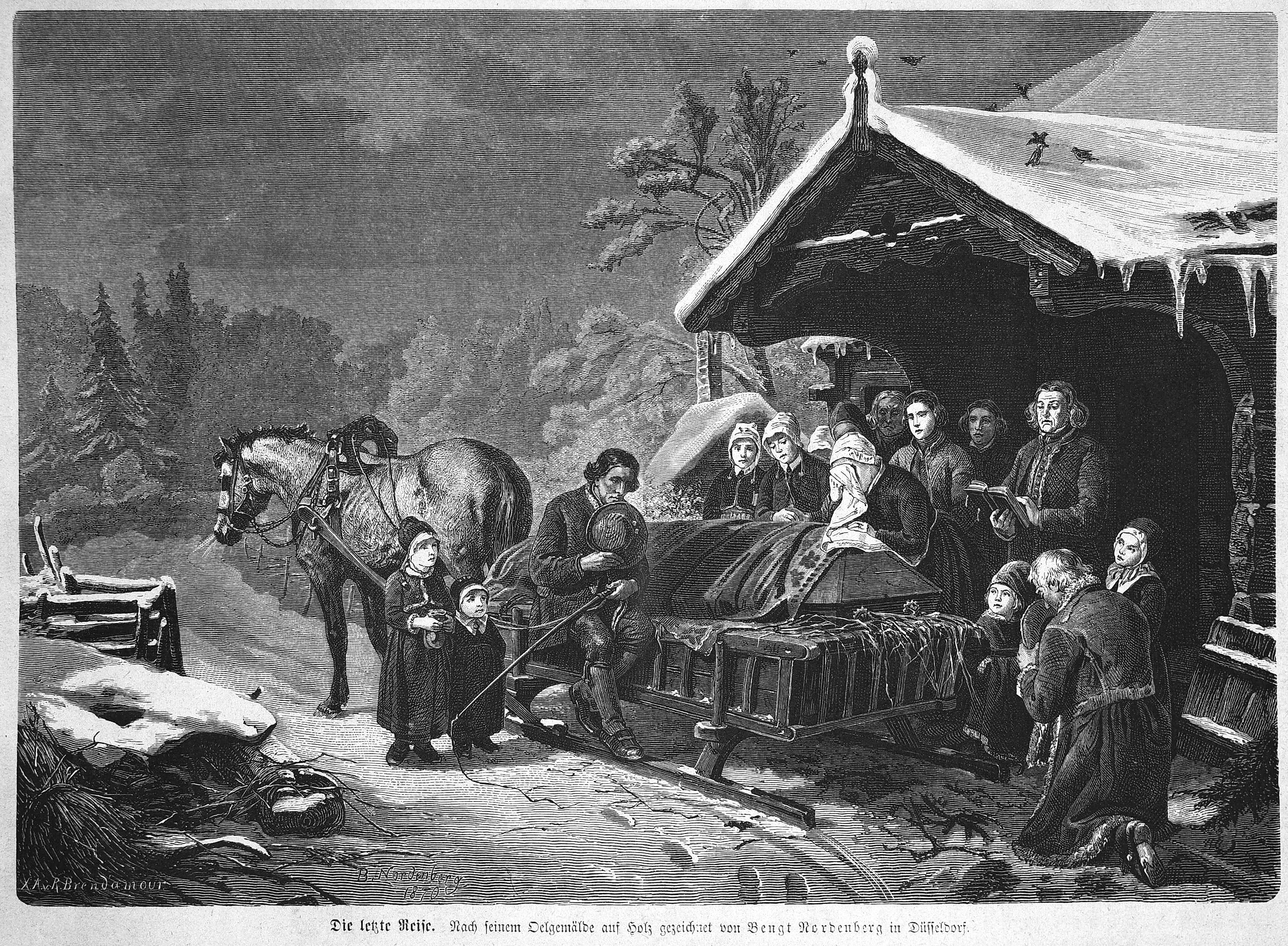 caption: "Die letzte Reise. Nach seinem Oelgemälde auf Holz gezeichnet von Bengt Nordenberg in Düsseldorf."